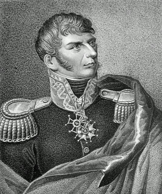 Polish general Józef Chłopicki (1771-1854), with Virtuti Militari and Legion of Honour insignia